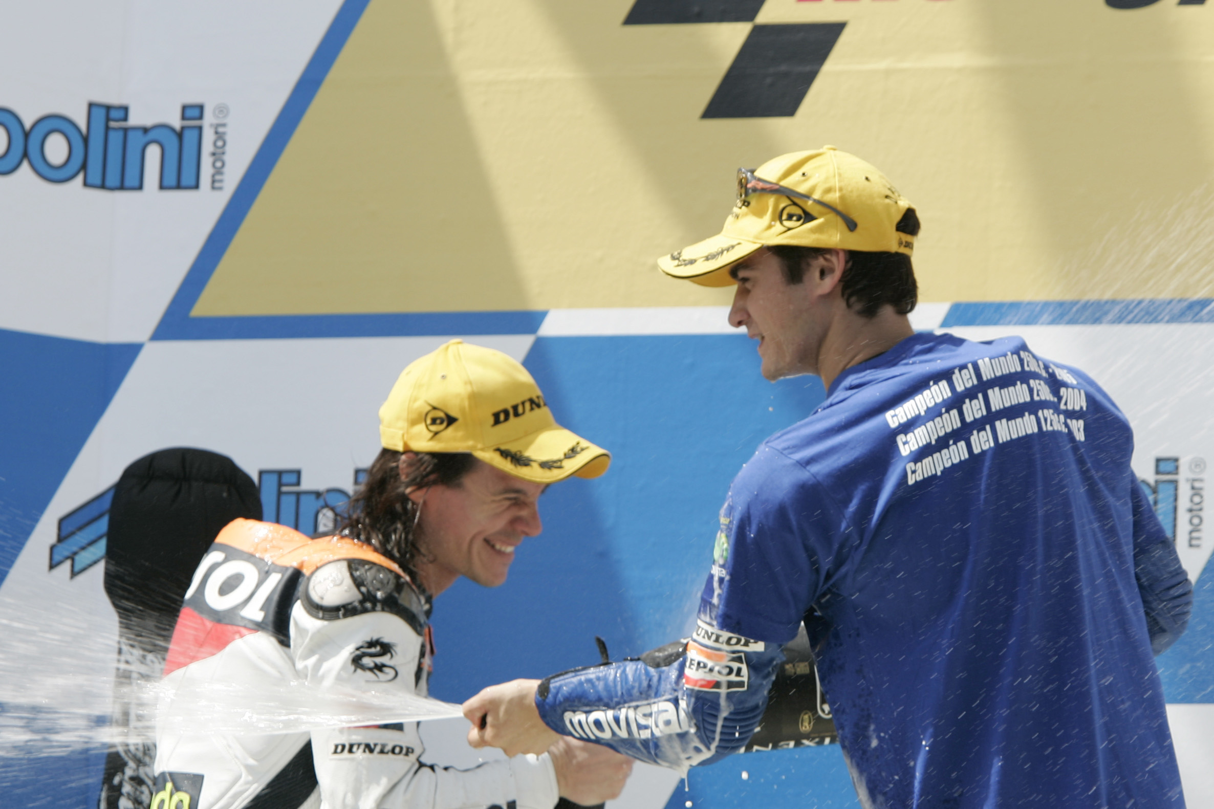 Sebastián Porto and Dani Pedrosa, celebrating on the podium after finishing in second and first position. Pedrosa also celebrates his second 250cc world championship at the 2005 Australian Grand Prix.